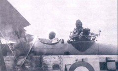 Hawai Sepoy (Later Wing Commander) and Air Gunner Kartar Singh Taunque with Flt.Lt. Mukherji (Later Air Marshal). Kartar Singh Taunque was the first ever air man of Indian Airforce (then Royal Indian Airforce) to be decorated for gallantry in battle field. Taunque flying as the Air Gunner with Flt.Lt. Peter Haynes conducted a daring bombing raid in 1938 in the mission known as "Operations in Waziristan".